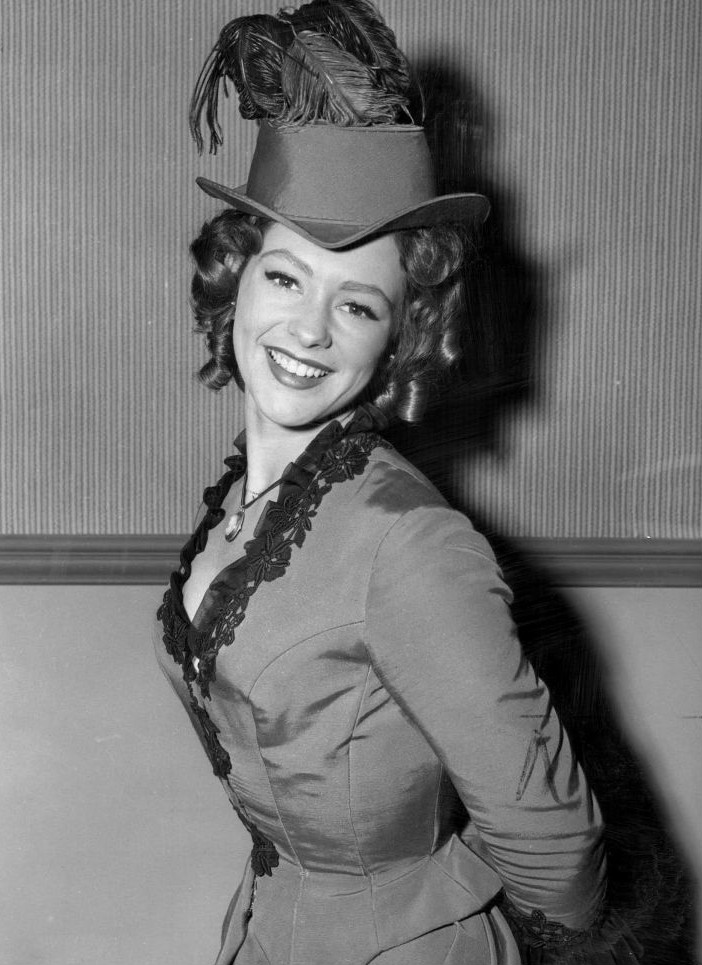 Photo of Judy Meredith as Monique Deveraux from the television program Hotel de Paree.